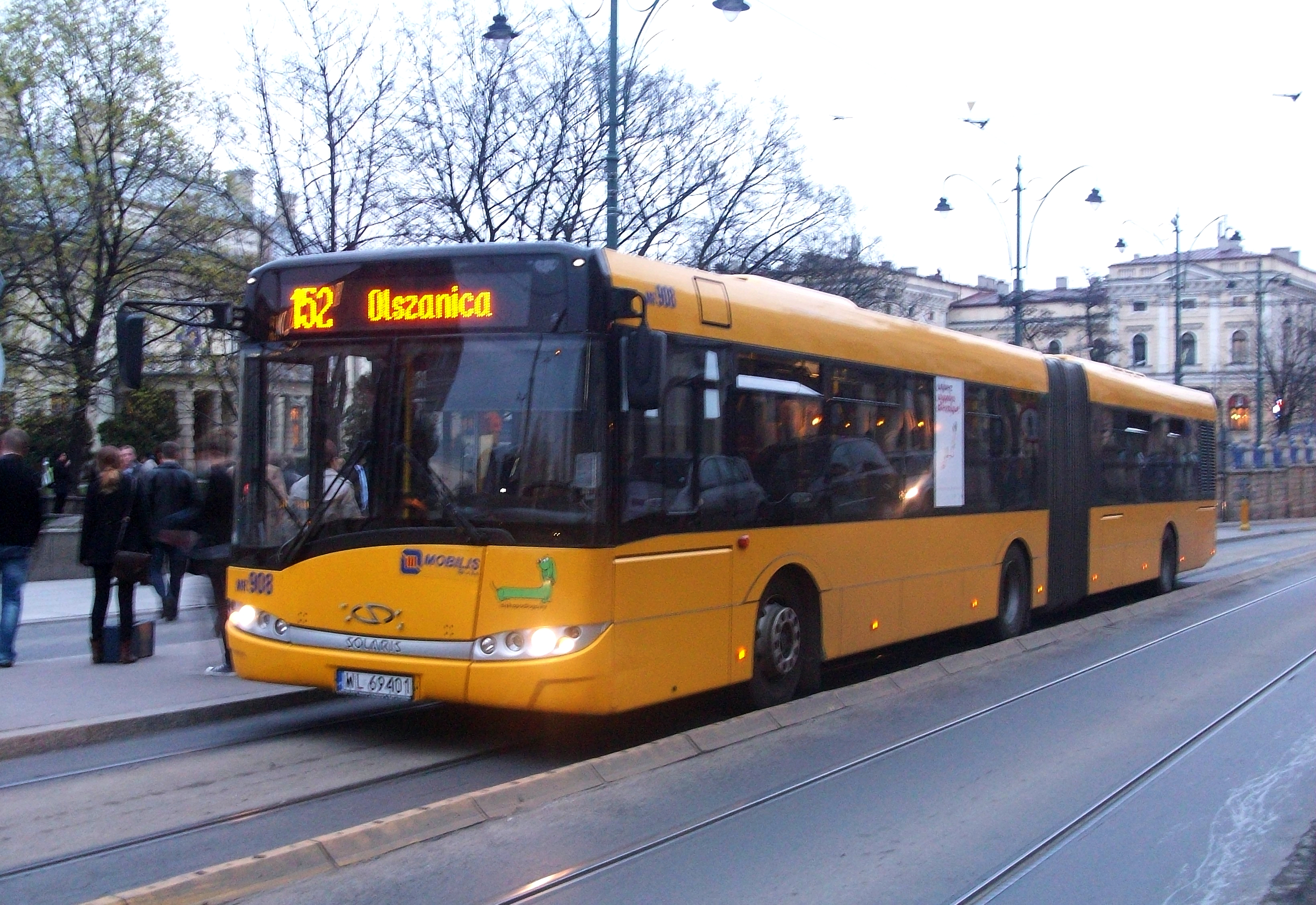 Solaris Urbino 18 W1 bus (#MR908, reg. WL 69401) in Kraków, Poland. Built 2008, Mobilis Mościska in Kraków operator.